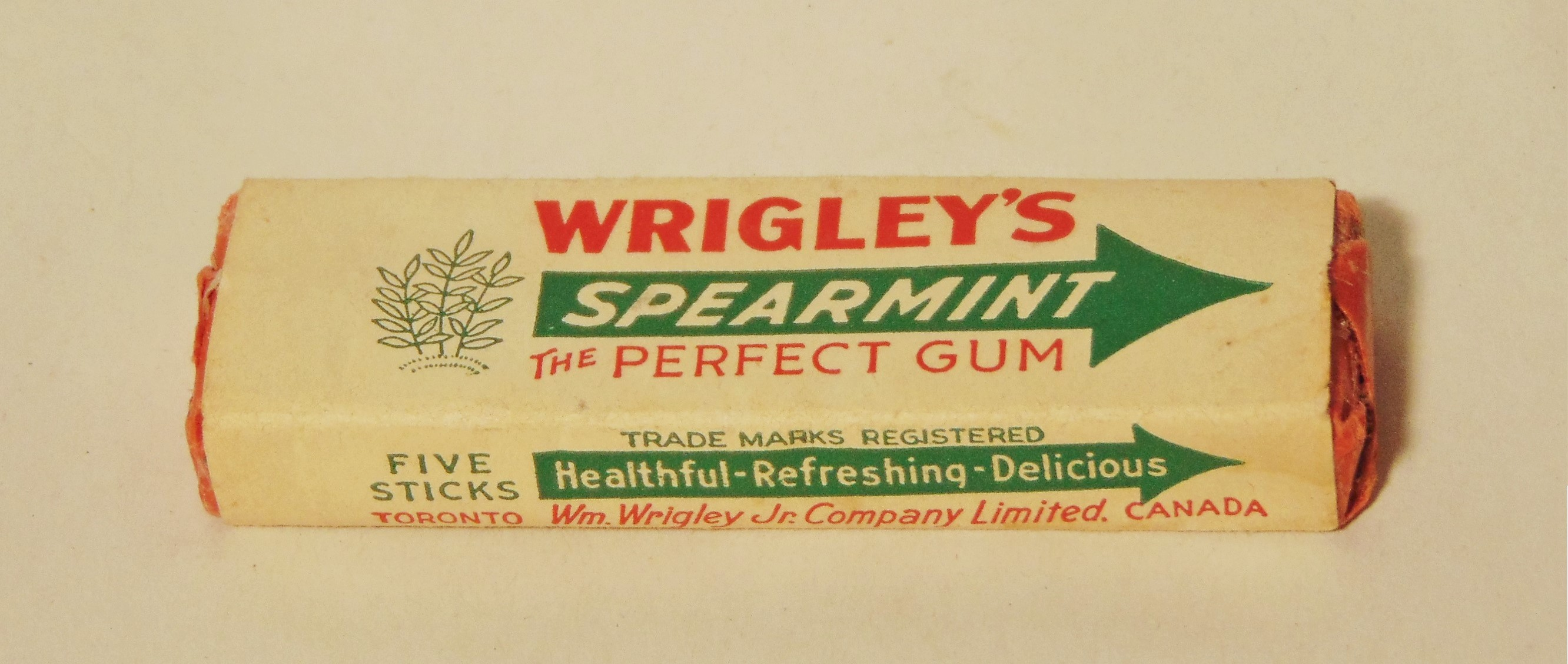 A pack of chewing gum, Wrigley's, 1940s. Photographed in the collection of the National Liberation Museum 1944-1945, the Netherlands, archive number 087.030.